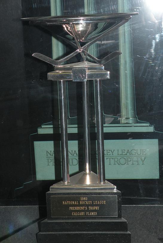 A miniature replica of the Presidents' Trophy, won in 1989 by the Calgary Flames, on display at the Pengrowth Saddledome in Calgary.